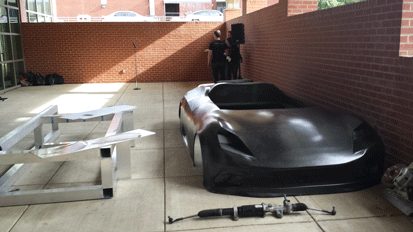 This is a photo that I took during a XM build event.